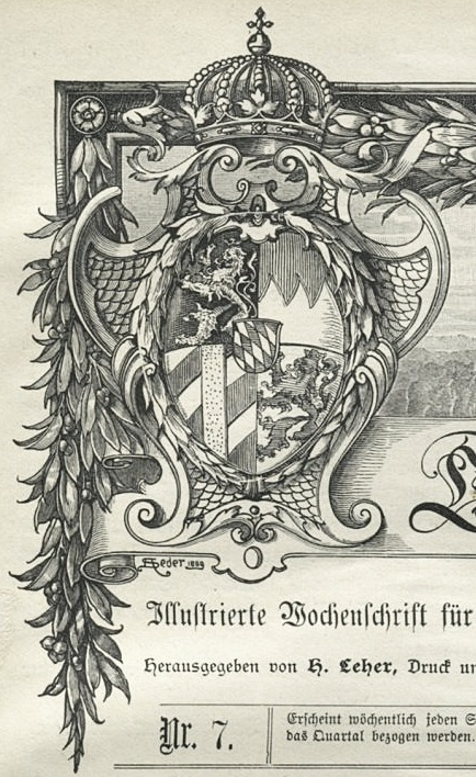 Bayerisches Staatswappen aus der Titelvignette der Zeitschrift "Das Bayerland" (1906), signiert von Anton Seder, 1889